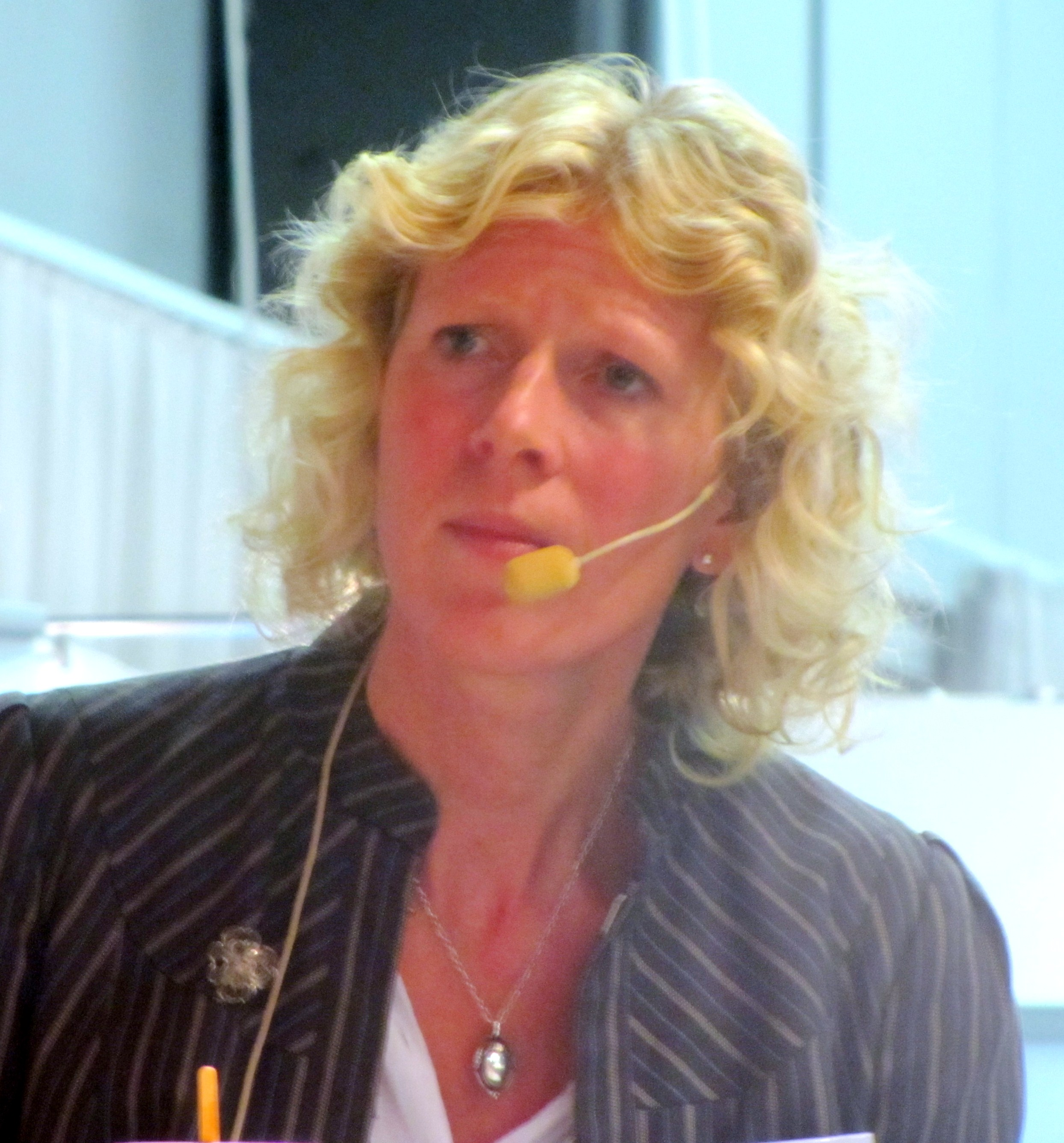 Swedish writer Barbara Voors at the 2010 Göteborg Book Fair.